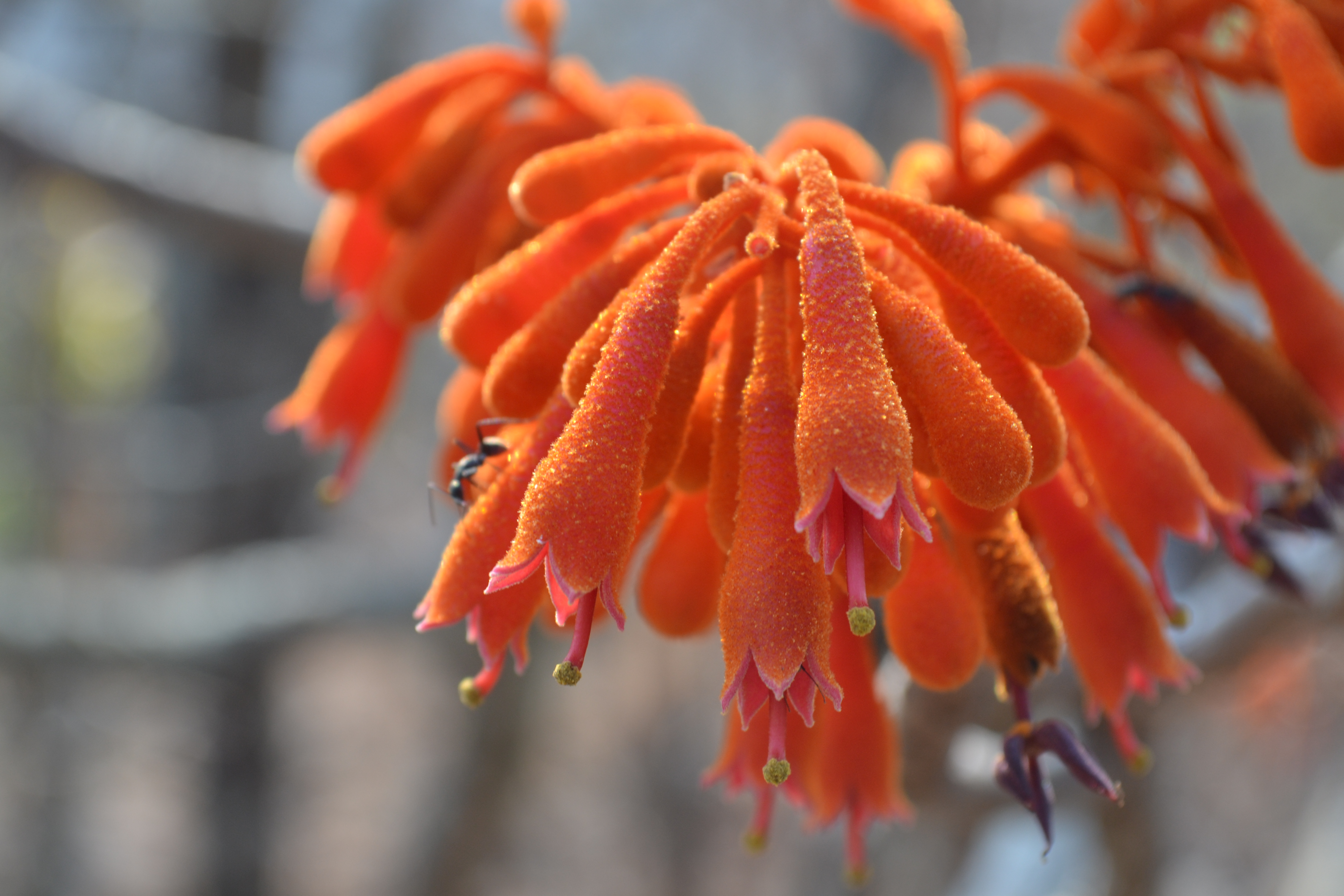 The genus Sterculia was named after the Latin god Sterculius. Stercus means dung. This name was given to this genus because of the foul-smelling flowers and leaves of some Sterculia species. Sterculia colorata is a medium-sized tree with spreading branches. It sheds leaves before the onset of flowering. After leaf-shedding, buds sprout and develop into flowers. The tree flowers from March­April. It produces flowers in short dense panicles which occur at the ends of the branches. The flowers are orange-red in colour and hang downwards. The flowering stalks together with flowers are covered with fine downy hairs giving the whole inflorescence a soft, velvety look. During flowering phase, Colored Sterculia is quite prominent and presents a brilliant sight because of its orange-red flowers against a leafless state. The flowers are large, 30 mm long. The flower tube is 13 ± 0.8 mm long, tubular at the base and lobed at the tip. Its rim is surrounded by white soft hair. The corolla looks like it is united inside with the tubular sepals at the base. From the centre of the calyx tube, a sta- minal column protrudes bearing at its summit 30 anthers. Scarlet Sterculia is common in the forests of the Western Ghats and the Deccan. Photo taken in Arsikere, Karnataka